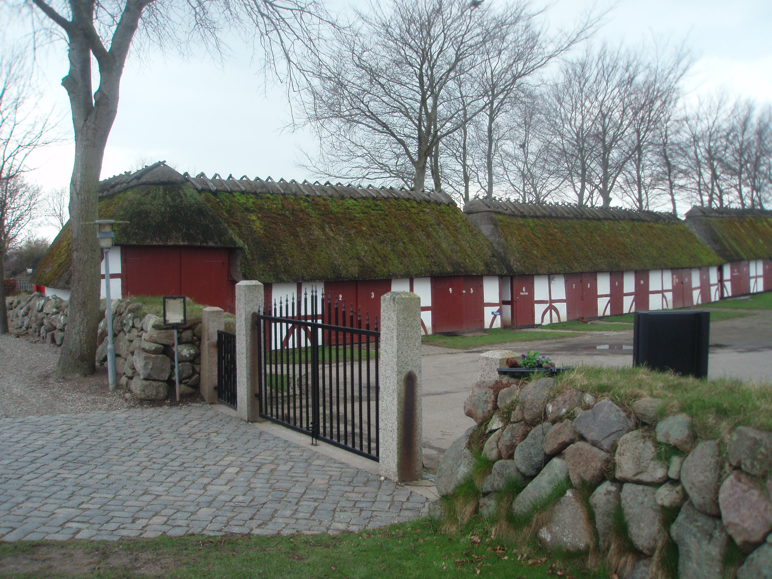 Churchstables at church in Egen, Guderup, Denmark. March 2009